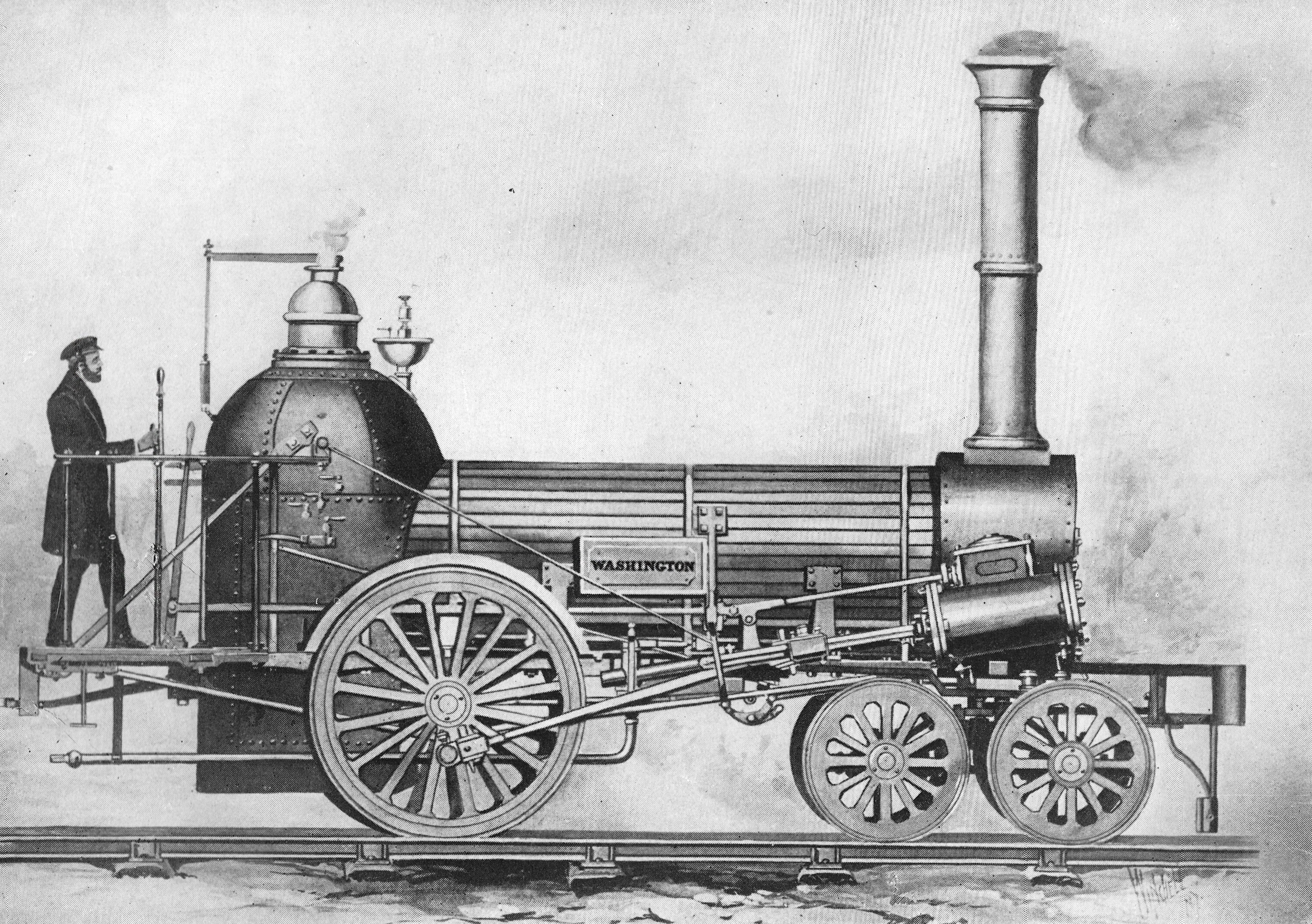 Willian Norris Locomotive Works, Philadelphia, 4-2-0 steam locomotive "George Washington" 1836